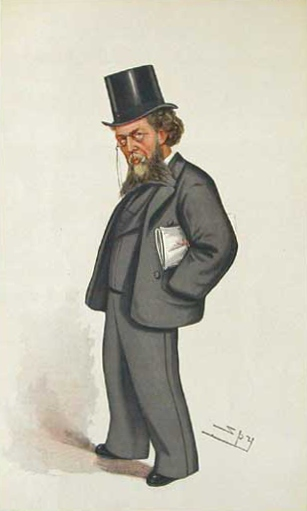 Caricature of William Cornwallis Cartwright MP. Caption read "Oxfordshire".